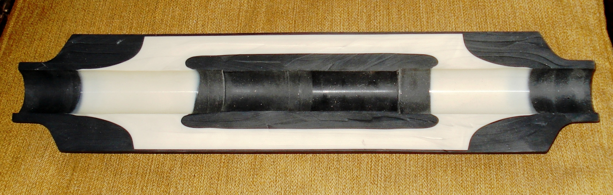 Longitudinal section of an accessory for connecting high-voltage cables. Invented by NKF (Netherlands Cable Factory) Delft. Dutch patent 149955, submitted 4 November 1965, granted 17 November 1976.